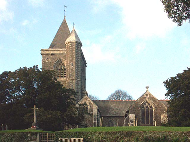 Parish church of St Michael Penkevil, Cornwall, seen from the south